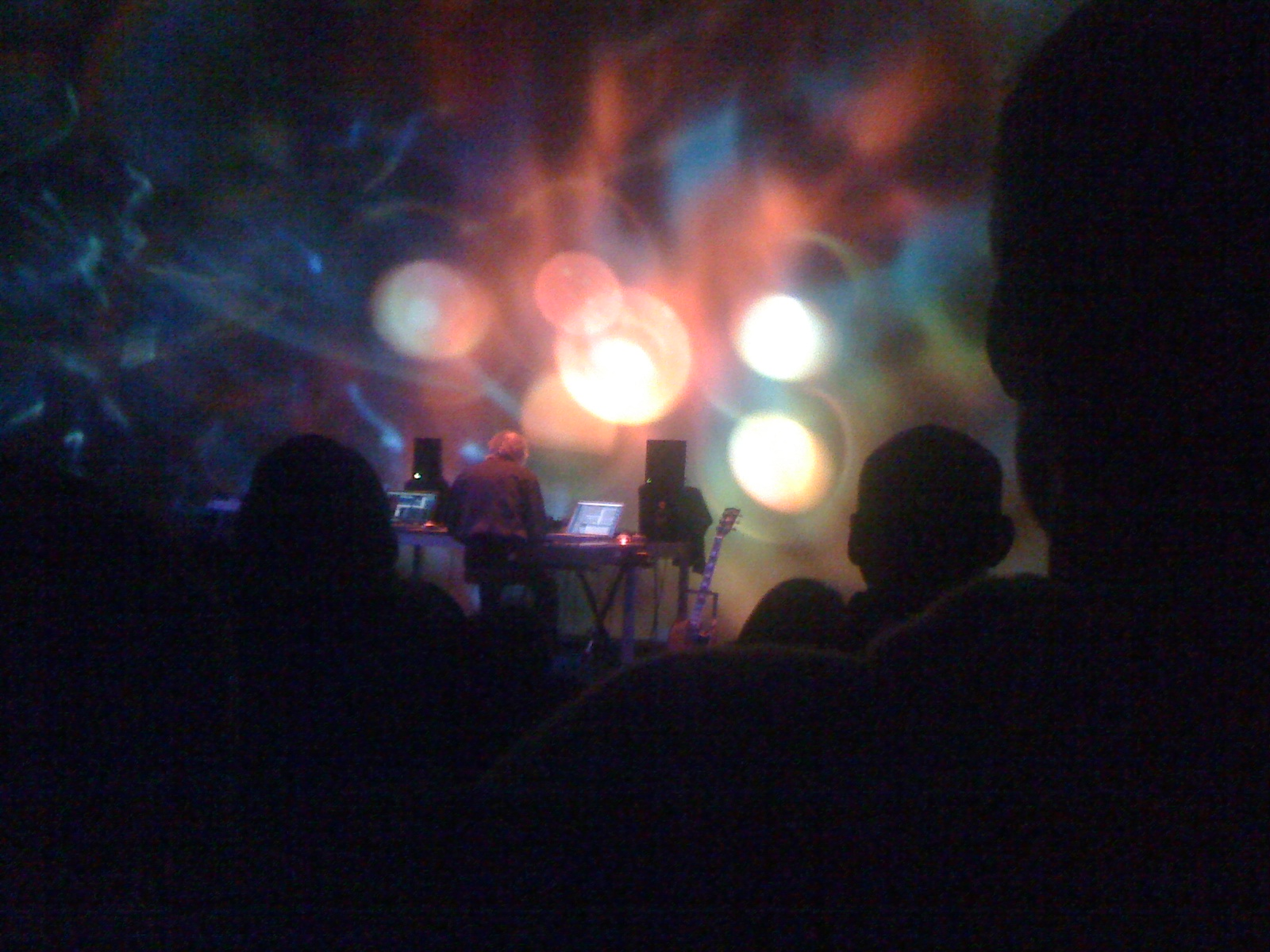 The Joshua Light Show featuring Manuel Göttsching, 02.04. 2012; Transmediale in House of World Cultures, Berlin